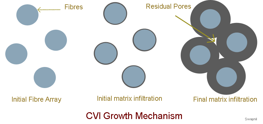 This is a diagram of build-up of fiber matrix array during CVI process